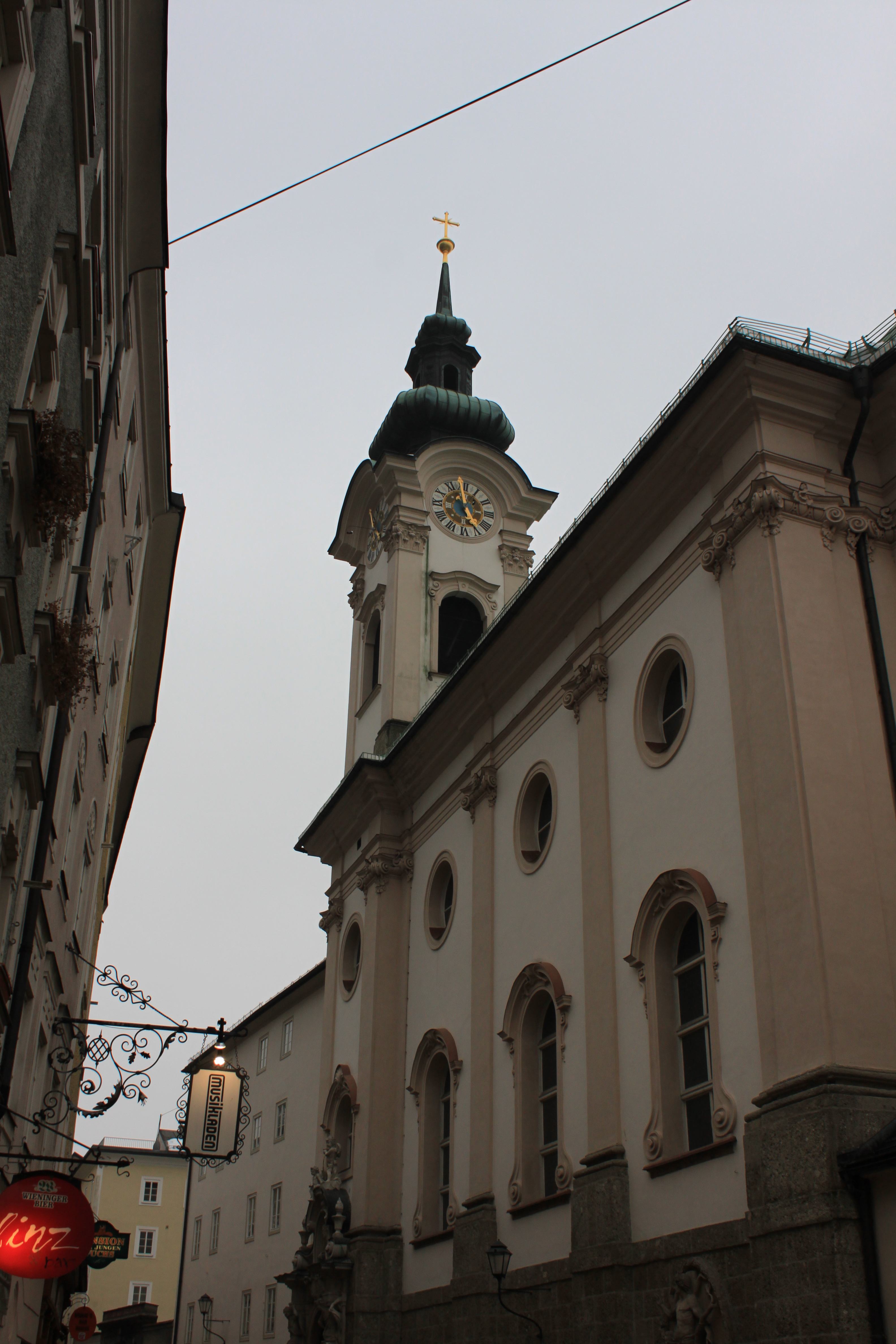 Tower and facade, seen from Linzer Gasse, direction towards the river.